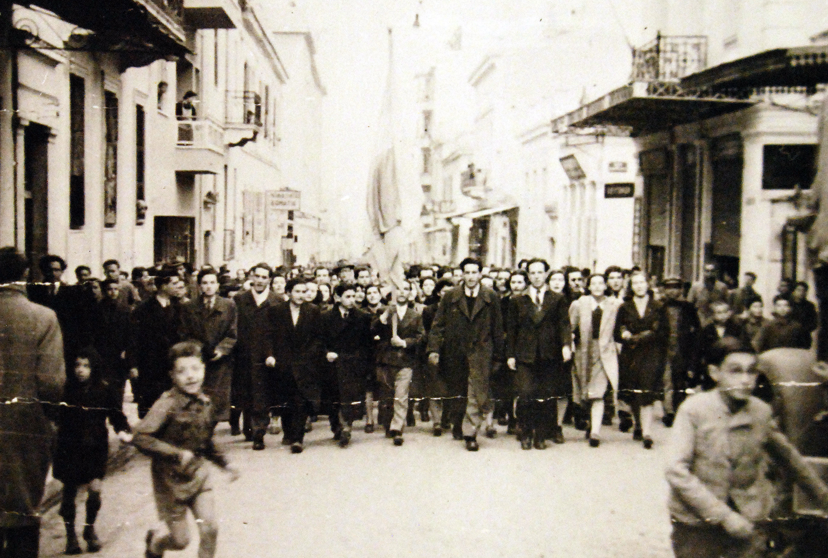 Lot 11618-4: Athens, Greece, 1942. In defiance of German and Italian threats and oppression, a large body of students at Athens University paraded through the streets in a daring celebration of the Greek national independence day, carrying a large Greek flag and signing patriotic songs. Axis troops later dispersed the gathering. Office of War Information Photograph (also LC-USZ62-115675). (2016/01/22).